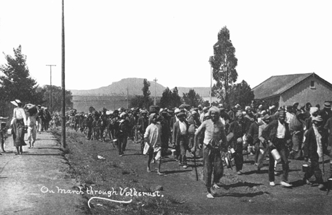 Transvaal Protest March organized by Gandhi, October-November 1913. "On march trough Volksrust"